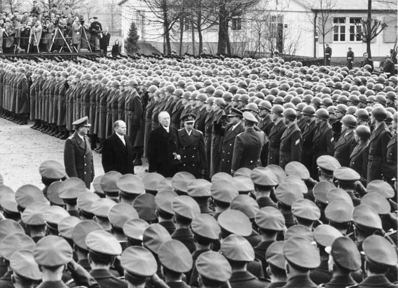 On Jan 20.56. Chancellor Konrad Adenauer visited for the first time the newly establihed German Army at Andernach. The Chancellor reviewed Army, Navy and Airforce groups on the camp grounds and addressed the German Soldiers in a short speech after he was introduced by Defense Minister Theodor Blank. Chancellor Adenauer accompanied by Defense Minister Theodor Blank, and Camp Commander Col. Philip (far right) review troops.